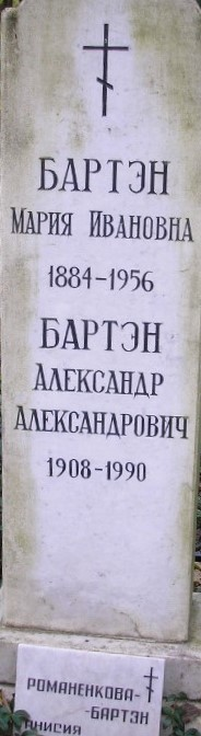 Надгоробный памятник Бартэн